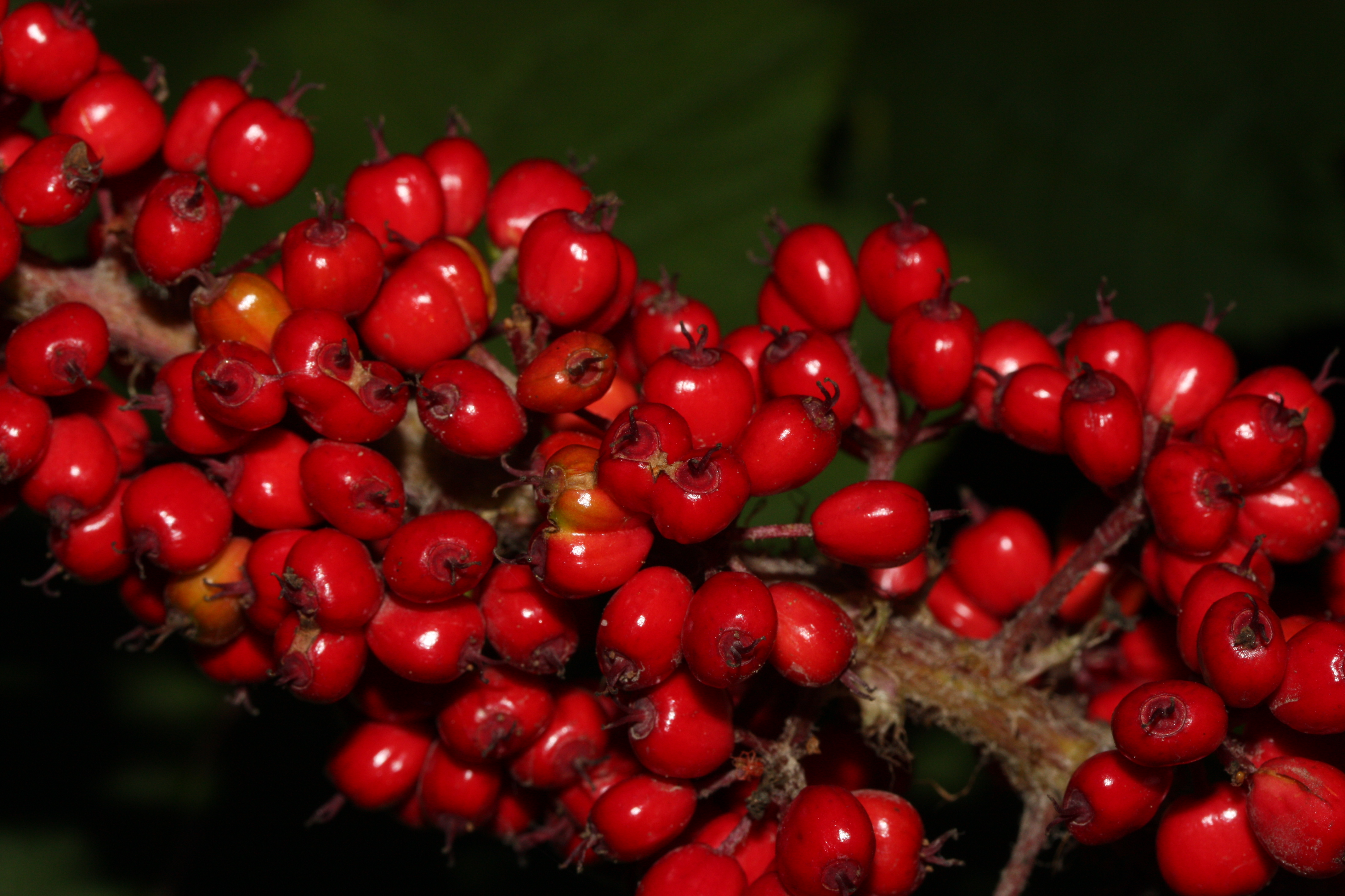 Devil's Club